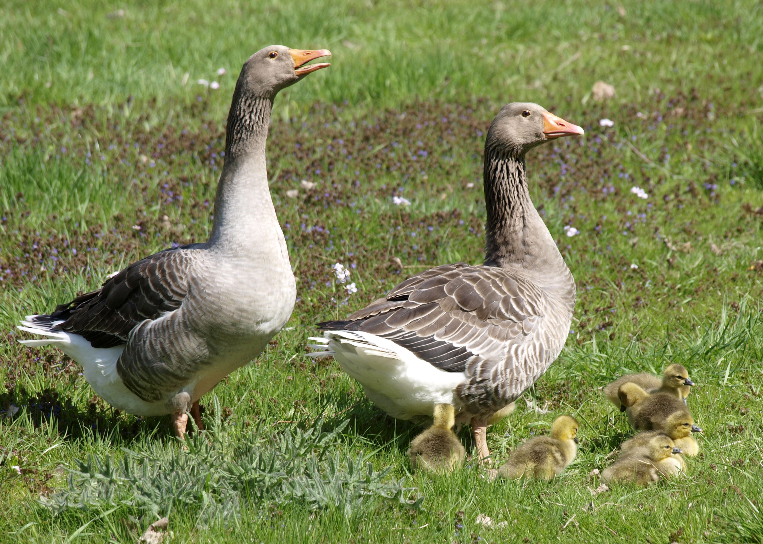 Pomeranian Goose with 2 days old goslings